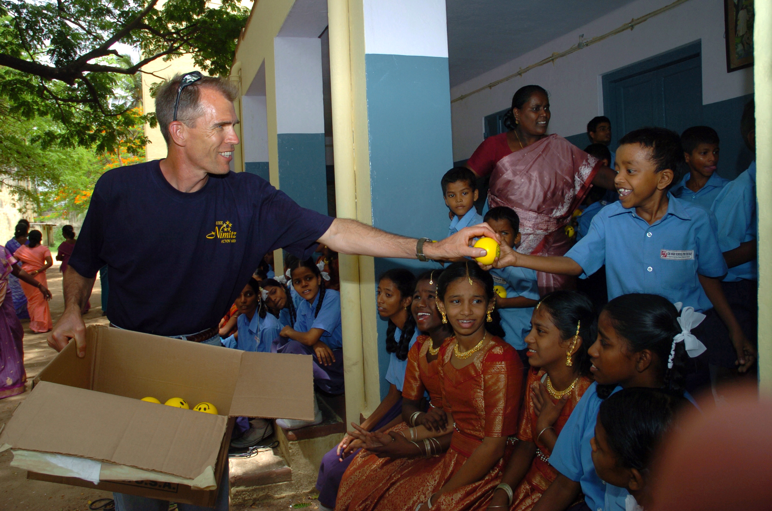 CHENNAI, India (July 4, 2007) - Lt. Cmdr. David Bynum, a Navy chaplain aboard USS Nimitz (CVN 68), passes out happy face sponge balls to the students of CSI High School for the Deaf during a community relations visit. Nimitz is the first nuclear-powered aircraft carrier to visit India. Nimitz and embarked Carrier Air Wing 11 are operating in the Pacific and Indian Oceans as part of the U.S. 7th Fleet. U.S. Navy photo by Mass Communication Specialist Seaman John Scorza (RELEASED)